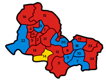 Ward map of the Wigan council with political colouring for the 1975 election. Colours: Labour Conservative Liberal